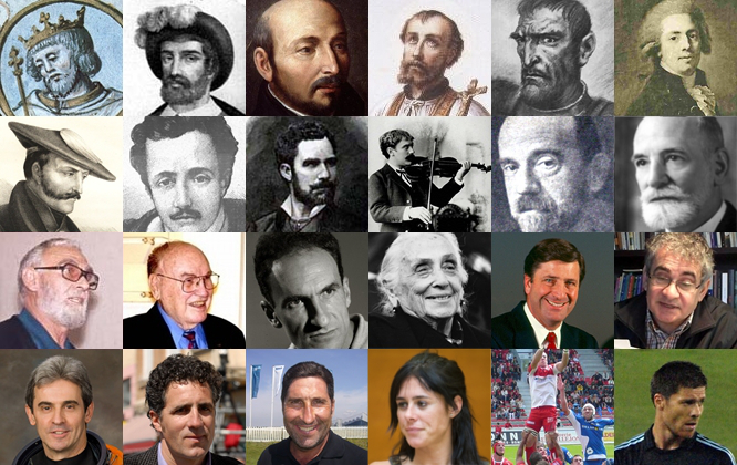 A montage of trimmed versions of the 24 Wikimedia Commons images listed below. These are the English names of people in the image, with links to their English Wikipedia articles: 1st row: Sancho III the Great, Juan Sebastián Elcano, Ignatius of Loyola, Francis Xavier, Lope de Aguirre, Fausto Elhuyar 2nd row: Tomás de Zumalacárregui, Antoine Thomson d'Abbadie, Julian Gayarre, Pablo de Sarasate, Pío Baroja, René Cassin 3rd row: Jorge Oteiza, Pete T. Cenarrusa, Eduardo Chillida, Dolores Ibárruri, John Garamendi, Bernardo Atxaga 4th row: Léopold Eyharts, Miguel Indurain, José María Olazábal, Edurne Pasaban, Imanol Harinordoquy, Xabi Alonso